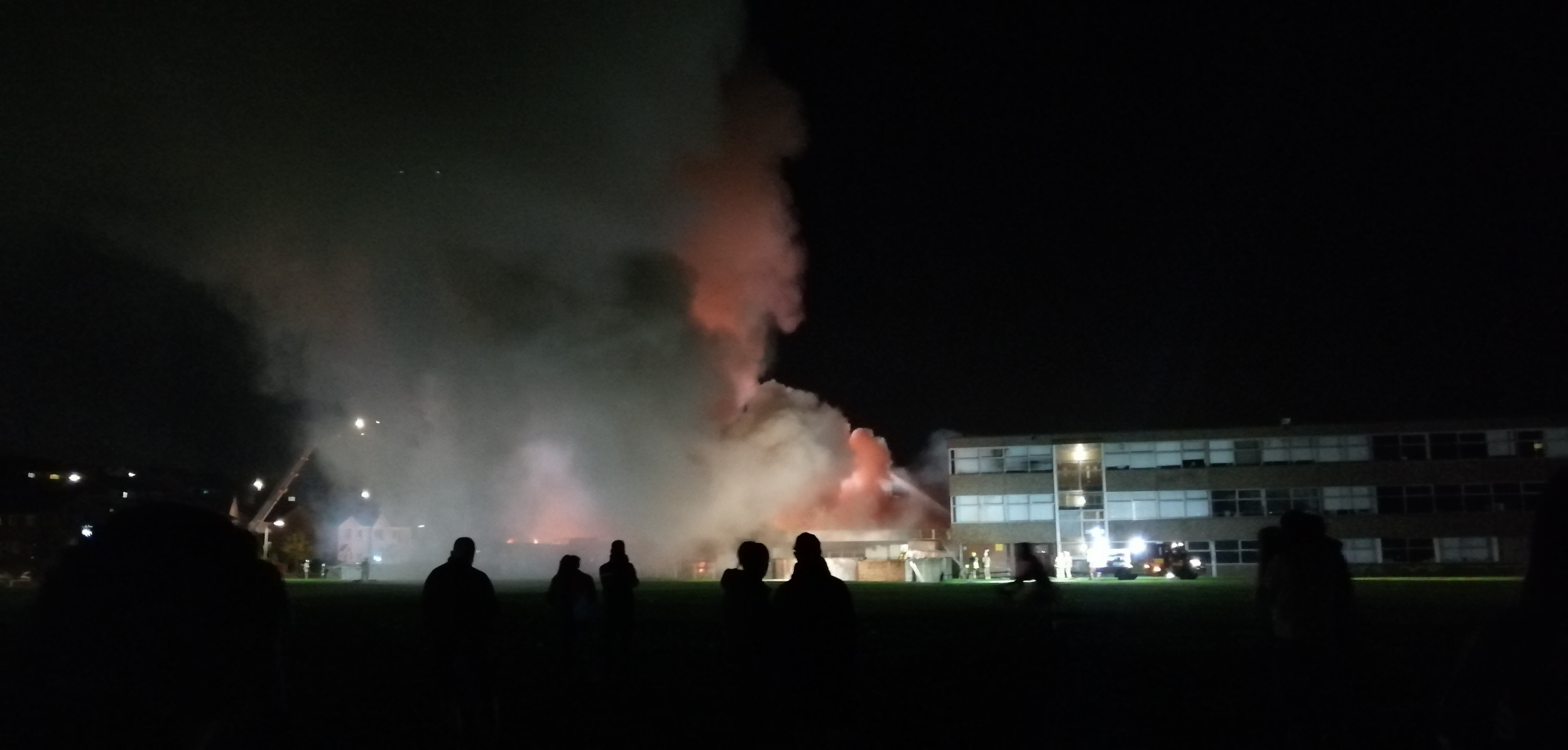 A view from the back of the school at the field.